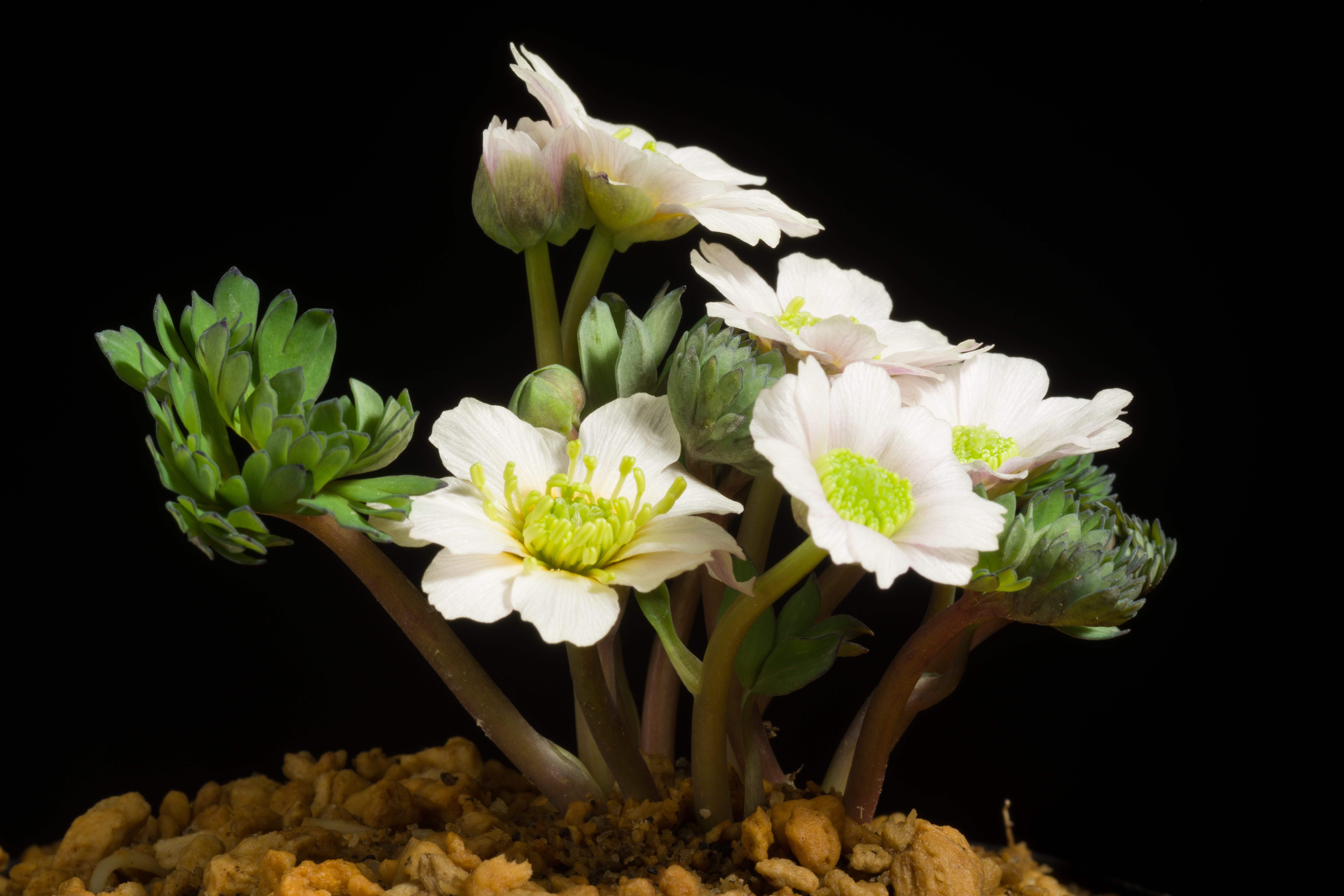 This is endemic species found in Hidaka Hokkaido, JAPAN. The plant is propagated by seedling.